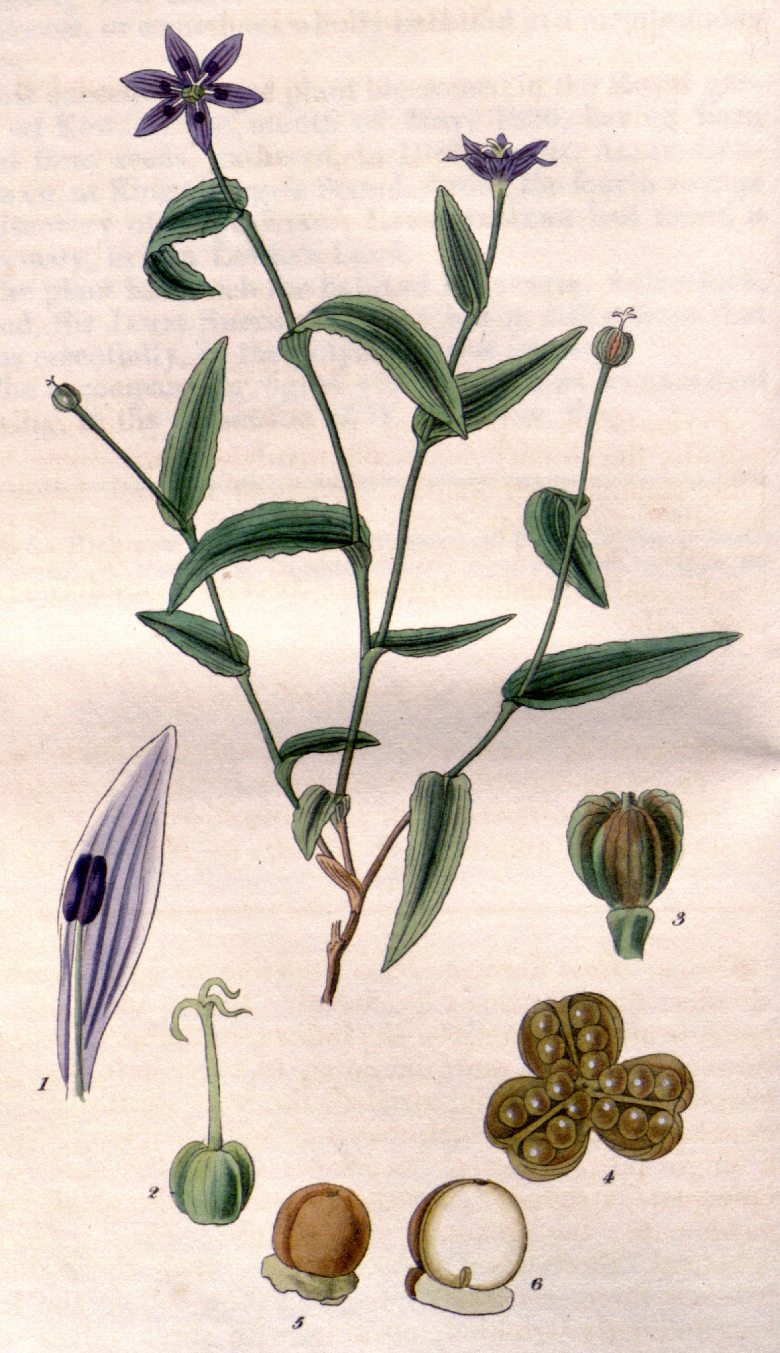 Schelhammera undulata